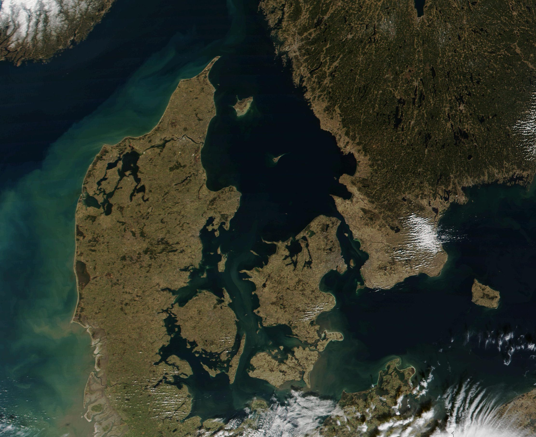 Denmark on 15 March 2002 from outer space.